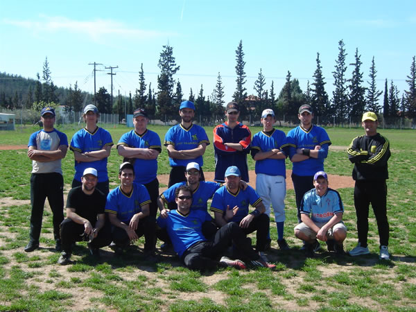 This is a picture I took